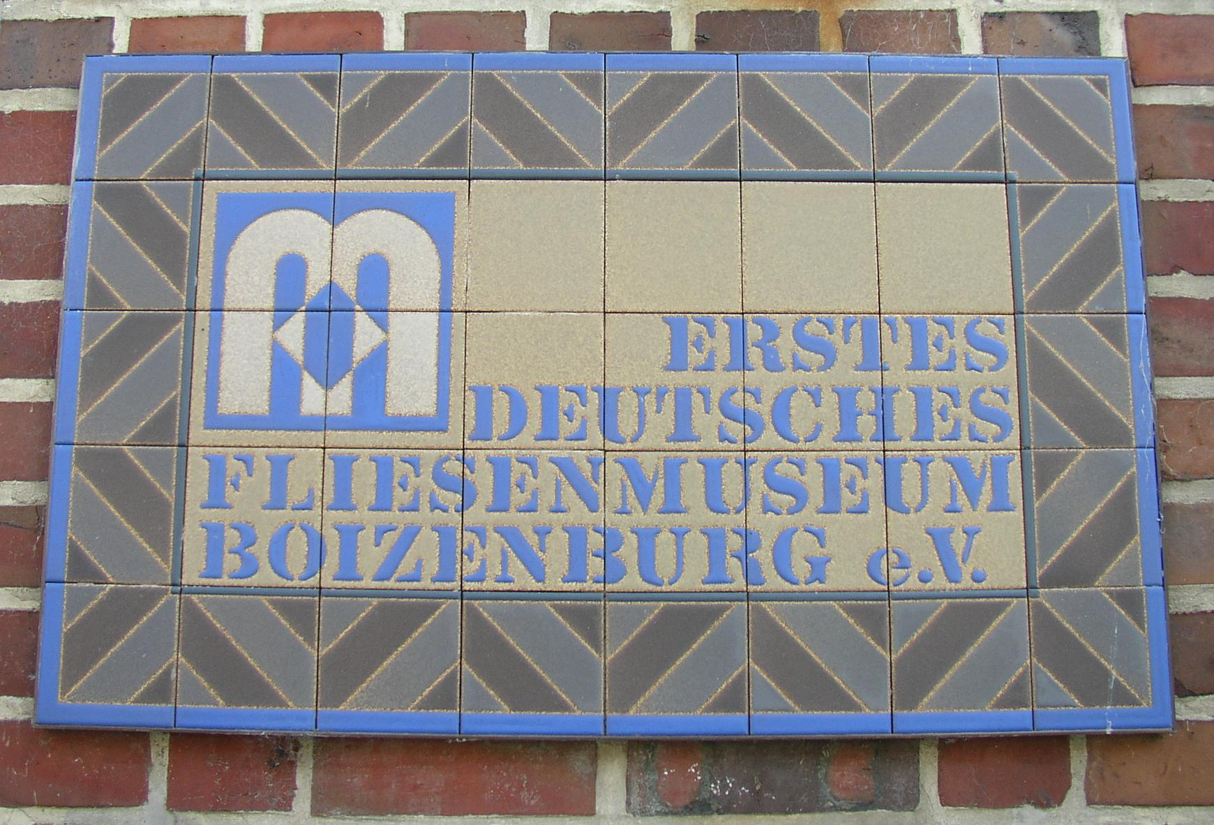 Tiles of „Erstes Deutsches Fliesenmuseum Boizenburg“ in Boizenburg in Mecklenburg-Western Pomerania, Germany